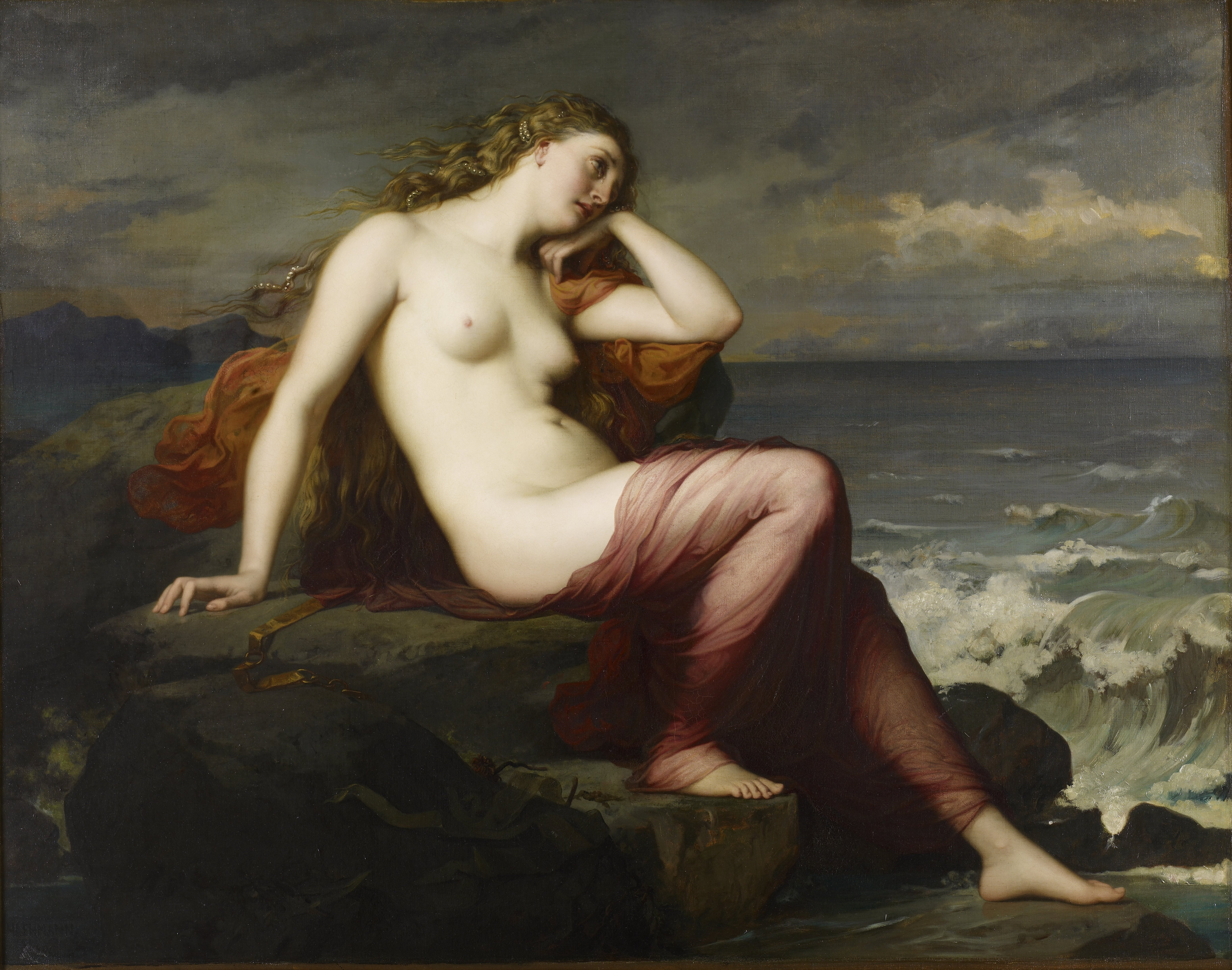 Mythology, The Odyssey, Calypso mourning over Odysseus on isle of Ogygia